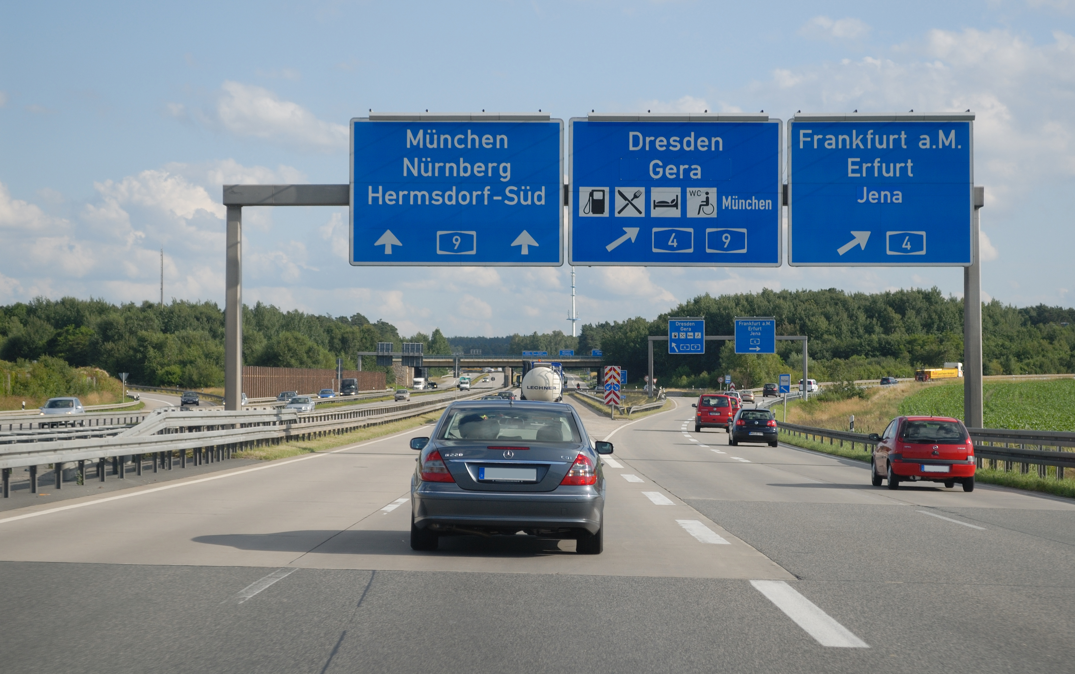 Northern view of Hermsdorf interchange. Road shot from A 9.